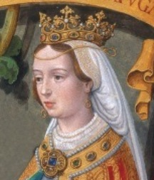 raingha